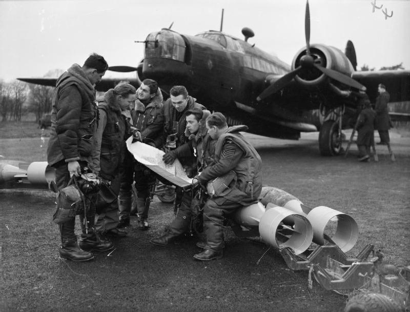 A bomber crew of No. 311 (Czechoslovak) Squadron RAF study a map, while sitting on 250-lb GP bombs which are about to be loaded into their Vickers Wellington Mark IC at East Wretham, Norfolk.